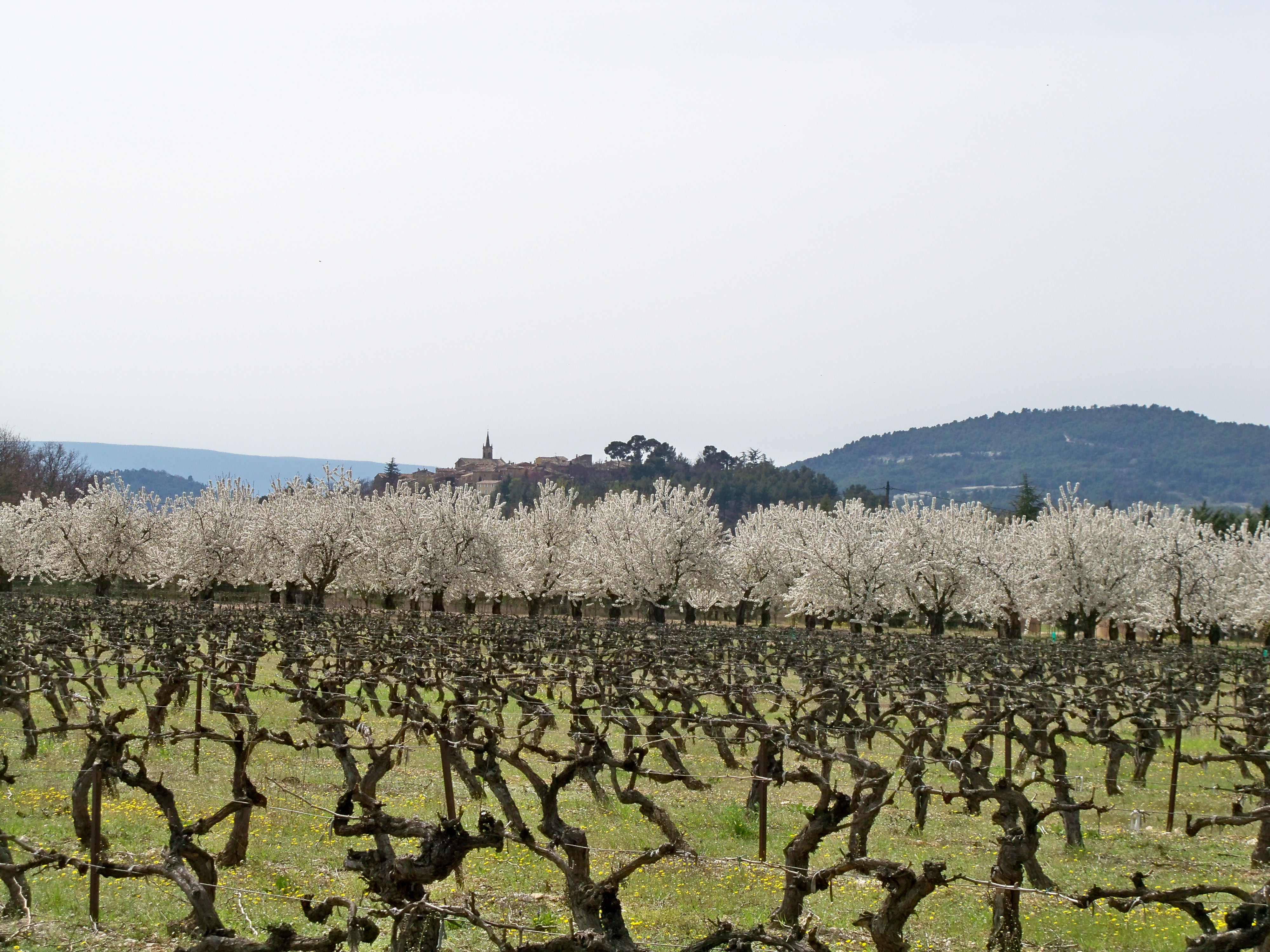 Vineyard and cherry tree field near Villard, Vaucluse, France